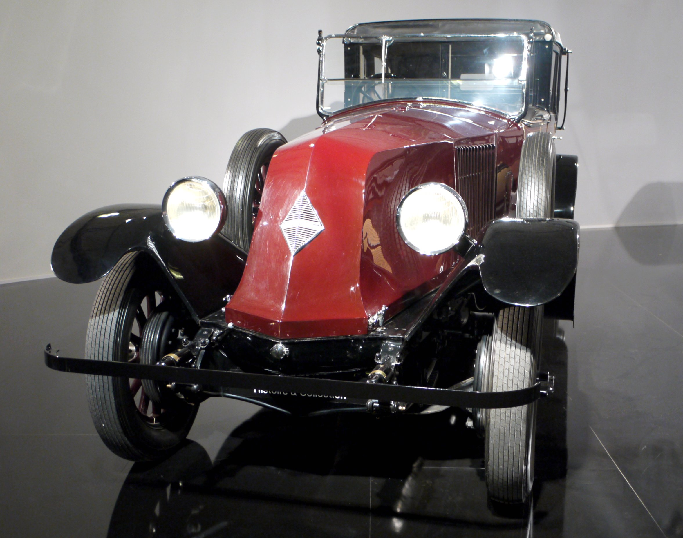 1924 Renault 40 CV Type MC. Spec.: - 6 cyl. - 9123 cc - Approx. 130 bhp - rear-wheel drive - 4 speed manual gearbox